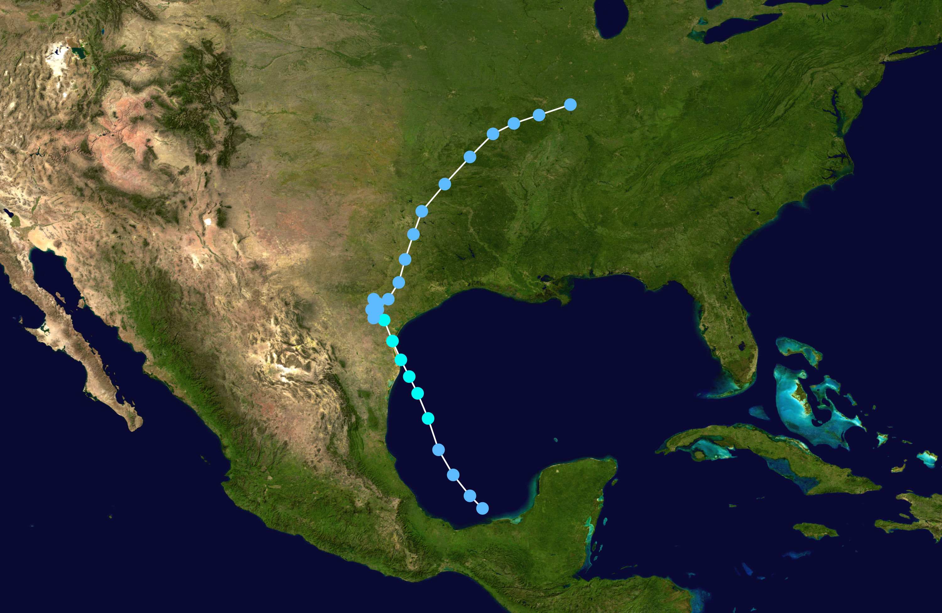 1960 Atlantic tropical storm 1 track. Uses the color scheme from the Saffir-Simpson Hurricane Scale.